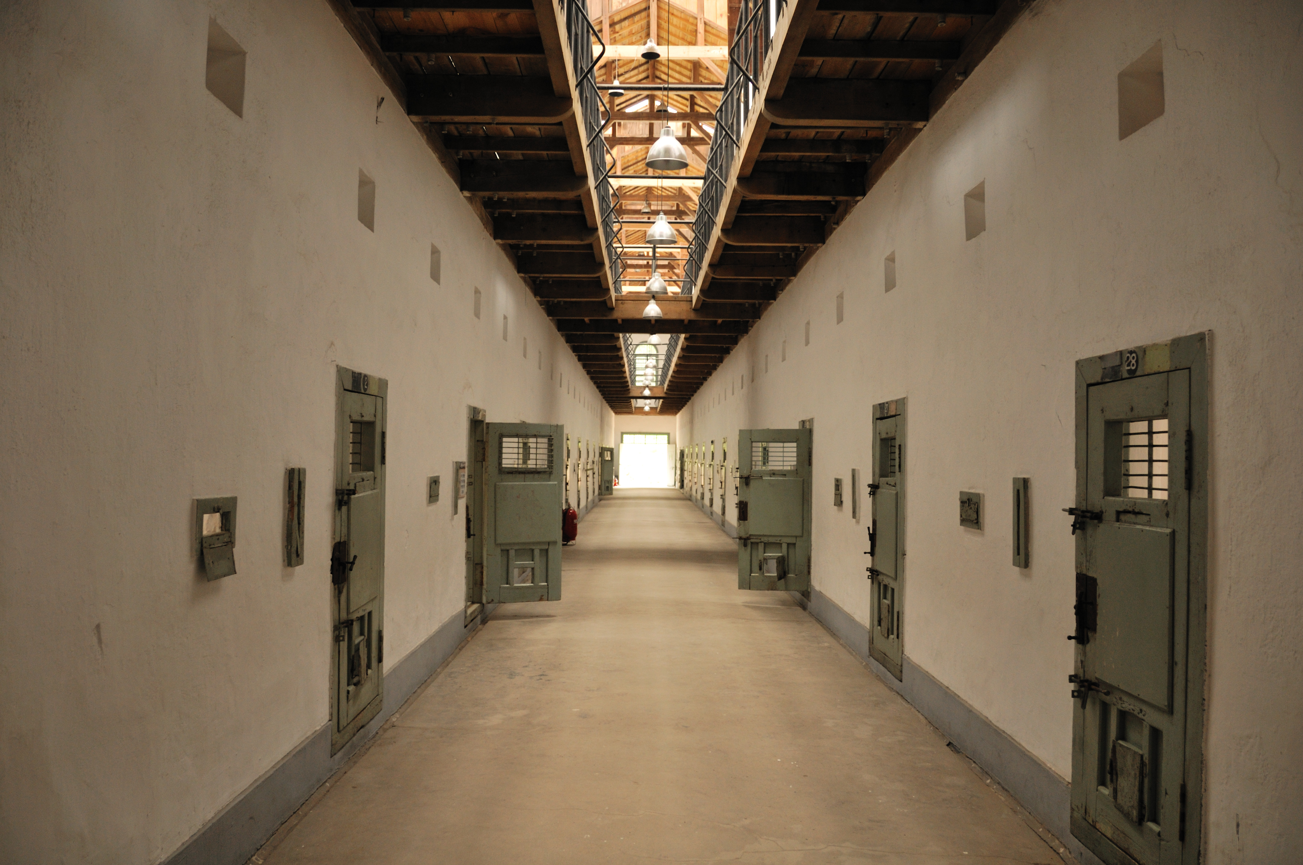 Seodaemun prison was used to lock away anti-colonial activists while Korea was considered a Japanese protectorate. View On Black